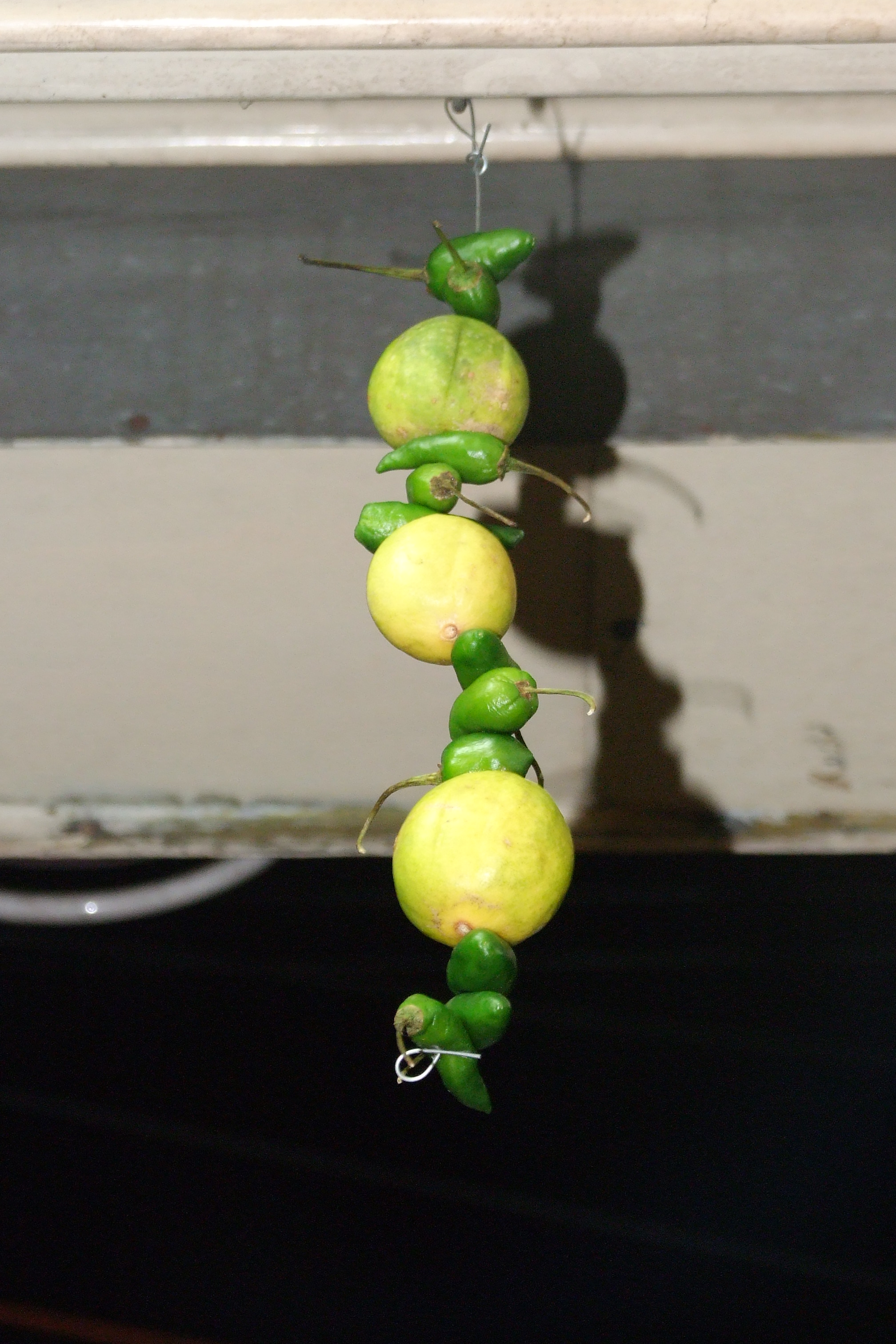 Chili peppers and limes hanging in front of a shop in West Bengal, India, used as a protection against the evil eye.